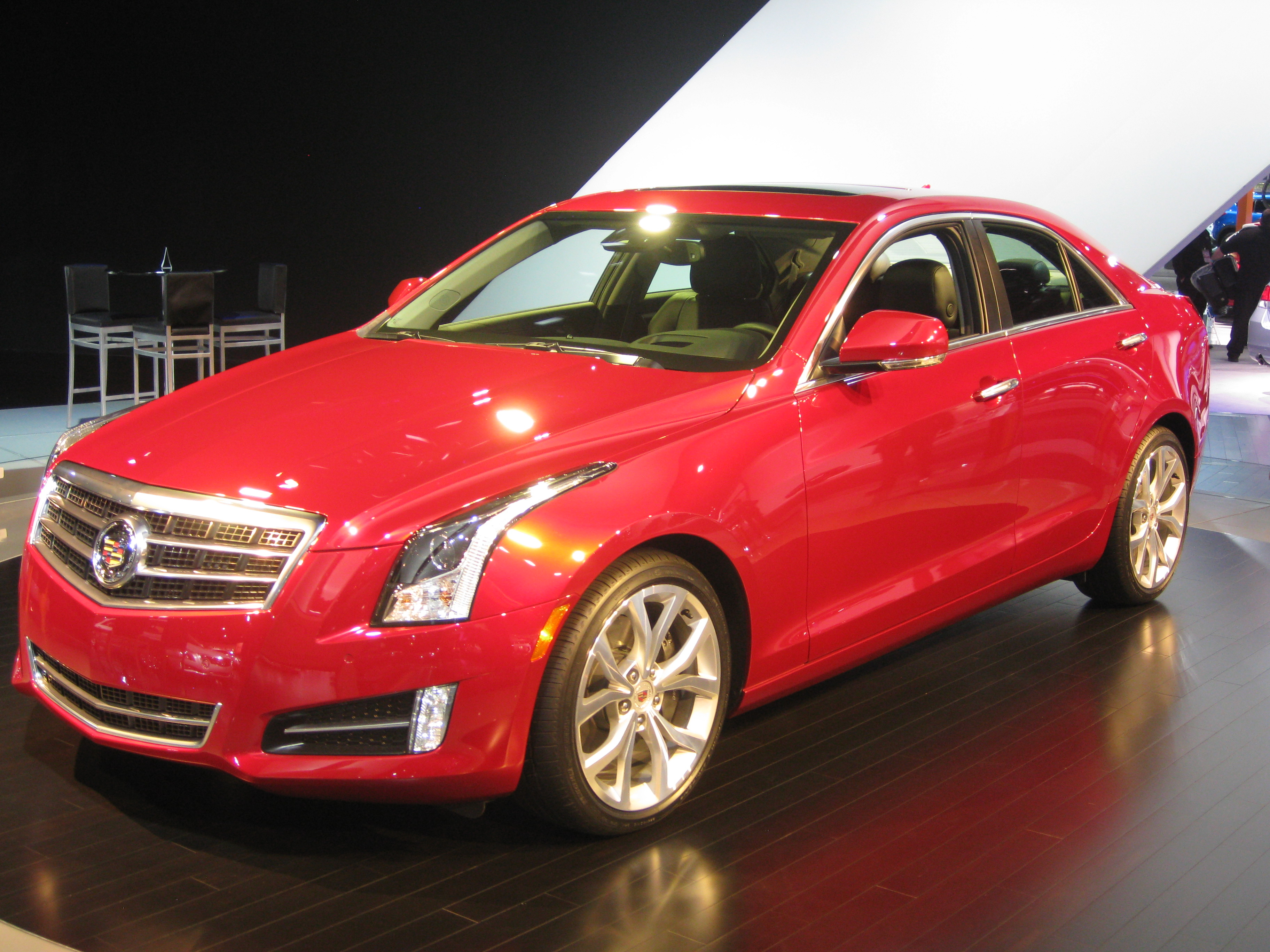 For more info and images please check